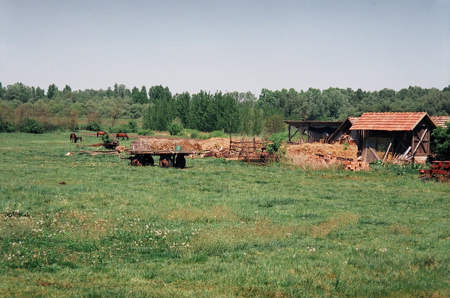 Farm next to the river Körös in the surroundings of the Hungarian town Mezőberény